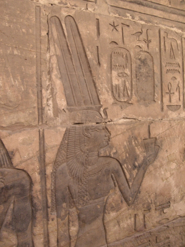 God's Wife of Amun, Amenirdis I making an offering - Chapels of god's Wifes of Amun at Medinet Habu - 25th dynasty of Egypt